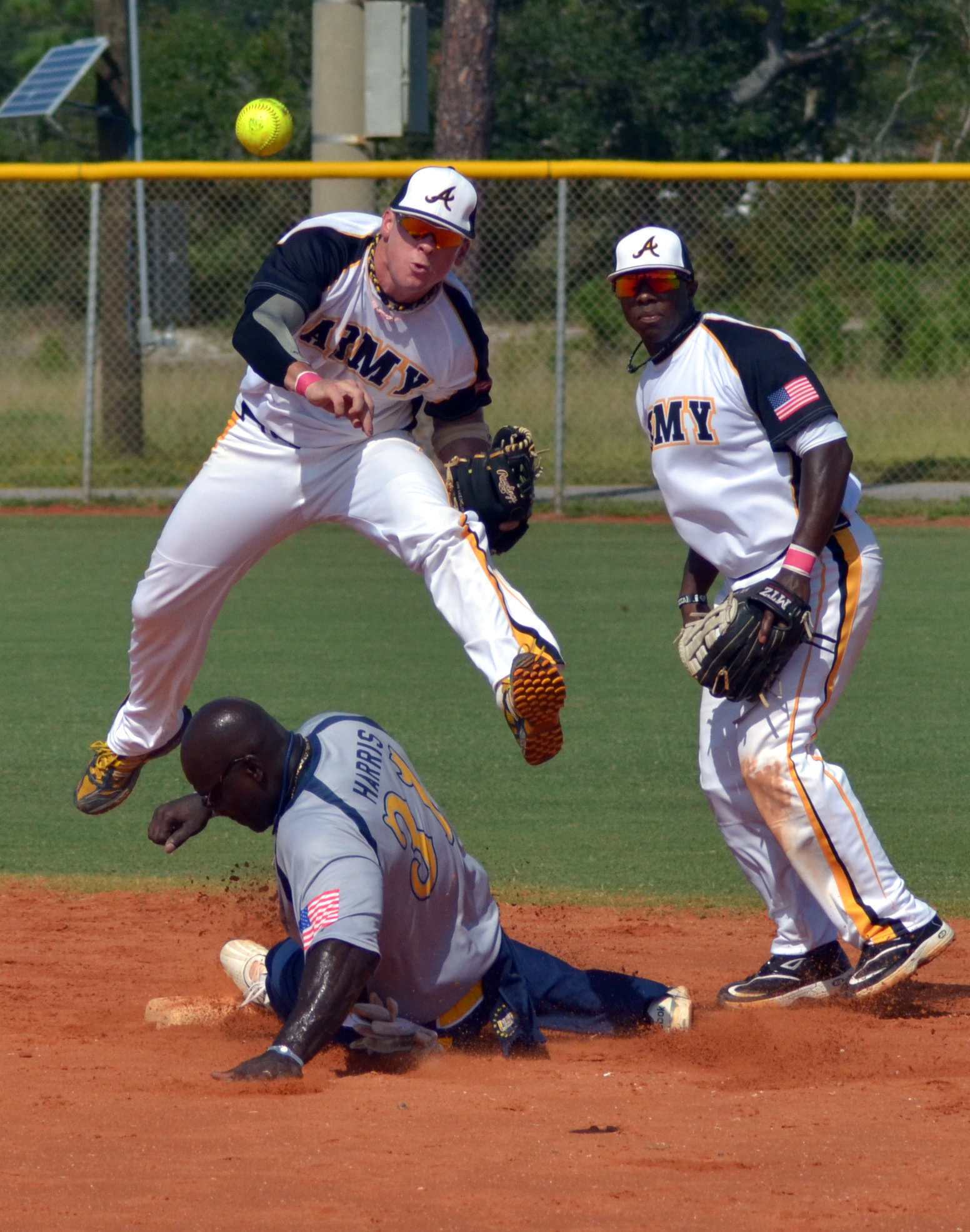 PENSACOLA, Fla. (Sept. 21, 2011) All-Army shortstop Sgt. 1st Class James Segrue, from Binghamton, N.Y., hurdles All-Navy Yeoman 1st Class Emilio Harris while making a hard throw to first base for a double play during the All-Armed Forces softball tournament. The tournament will continue through Sept. 22, 2011 at Naval Air Station Pensacola. (U.S. Navy photo by Ensign Caleb White/Released)